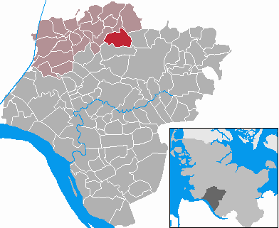 This map shows the area of the municipality Looft in the Kreis (district) Steinburg, Schleswig-Holstein, Germany.